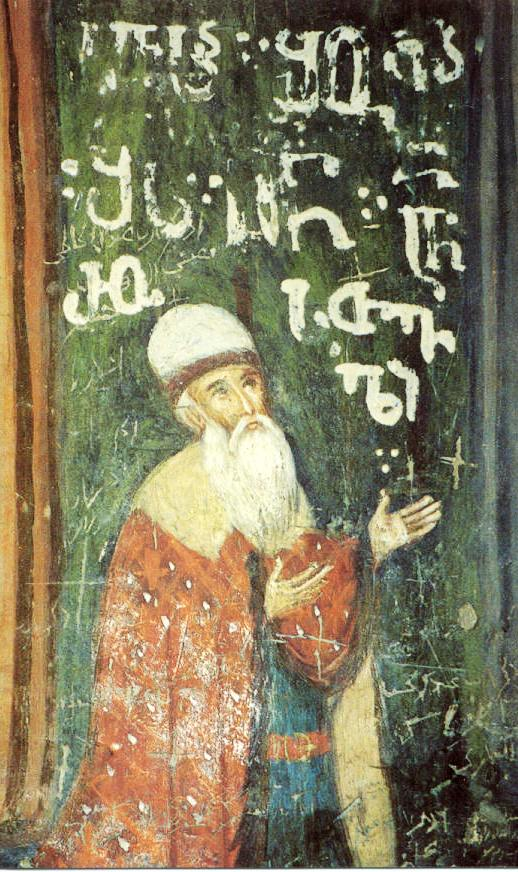 Shota Rustaveli, Georgian poet and statesman, 11th century